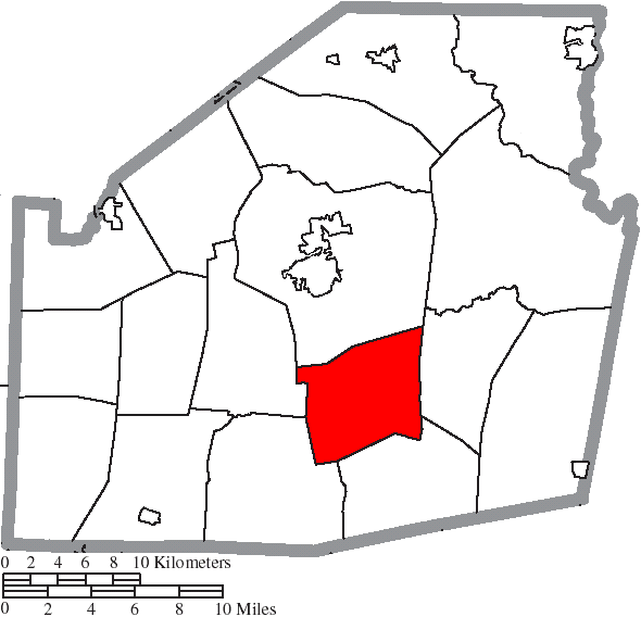 Map of the municipal and township boundaries of Highland County, Ohio, United States, as of the 2000 census, with the location of Washington Township highlighted. Township borders are shown only in unincorporated areas in order to differentiate incorporated and unincorporated areas more clearly.